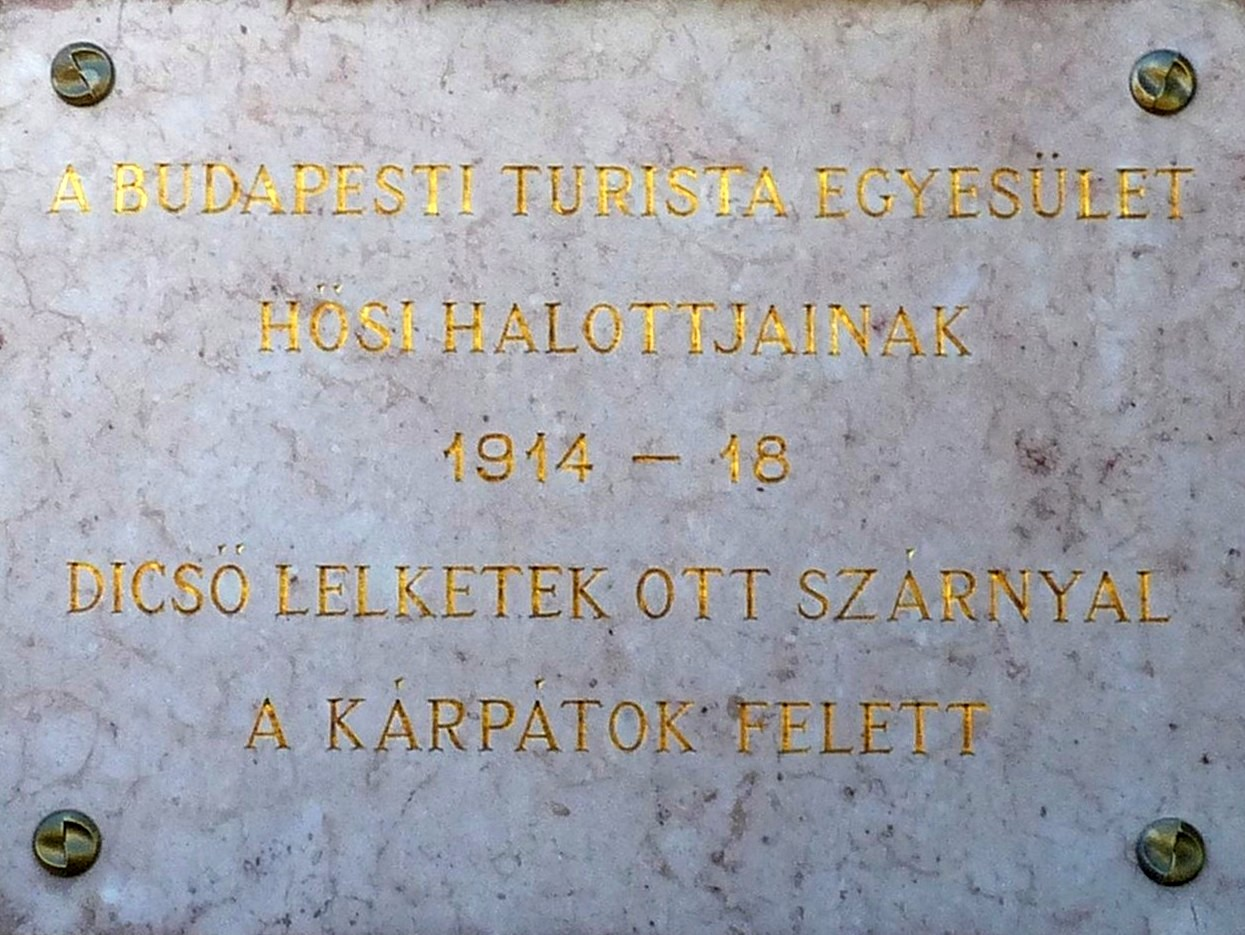 Commemorative plaque to the Budapest Tourism Association’s members fallen on the Great War field. It is affixed at the gater of the land where was the famous Csucs-hegy refuge. It was set up in 1999 instead of 1929 plaque disappeared in past years. (Budapest, District III, Menedékház Street Nr 122)